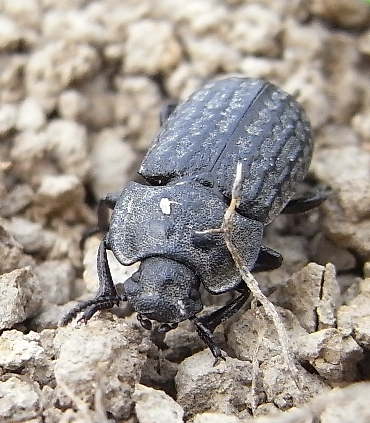 Opatrum riparium from West-Hungary near Lenti, at 2010-04-23 Ricoh R8